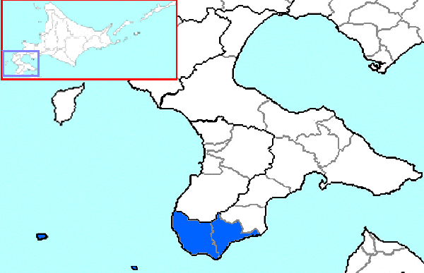 The location of Matsumae District in Oshima Subprefecture, Hokkaido Prefecture, Japan.